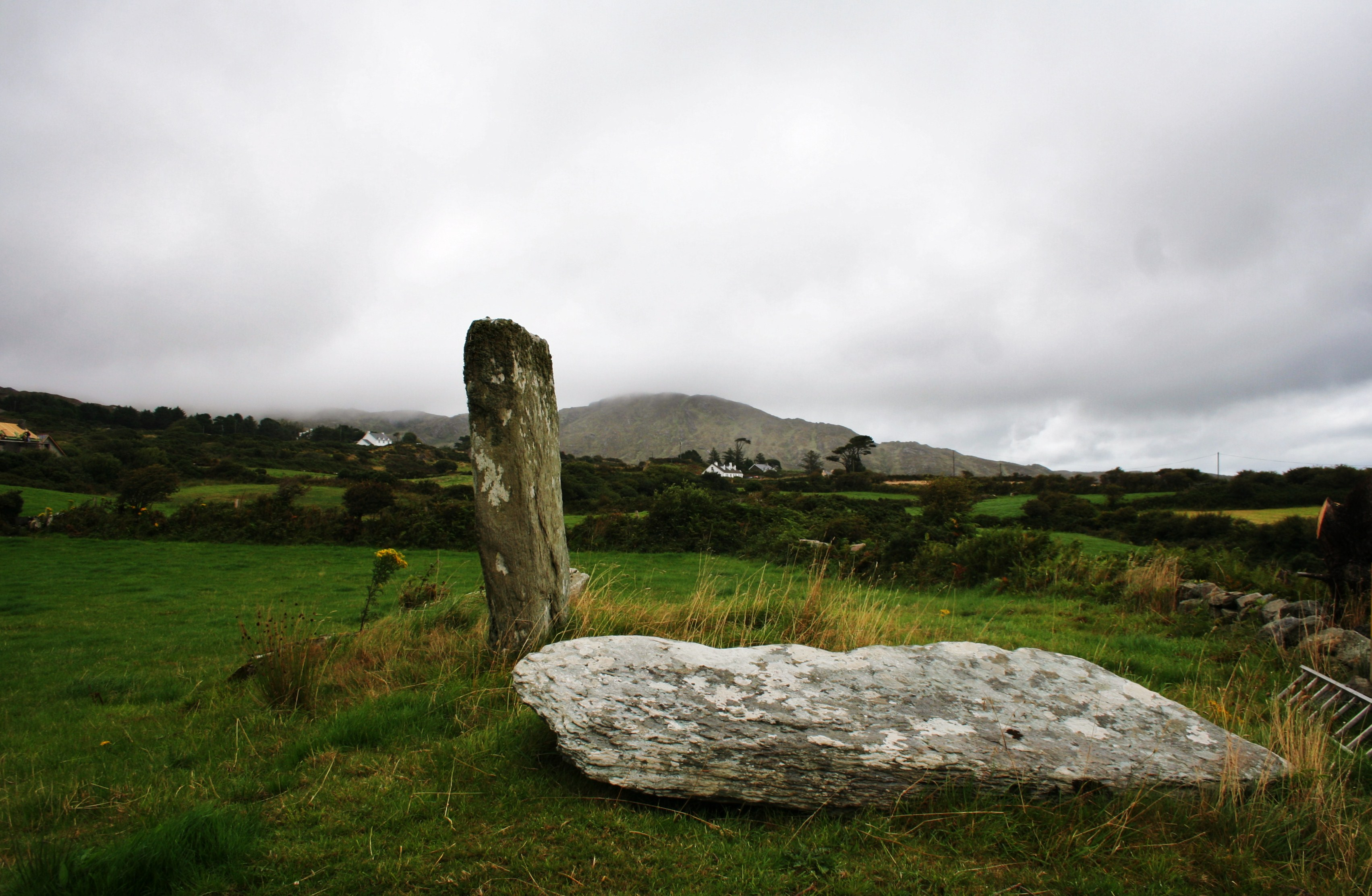 Farranamanagh Stone Row A row of three stones at Farranmanagh, two have fallen. The mist shrouded Rosskerrig mountain is behind.